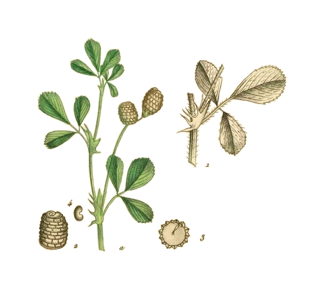 Illustrations of Medicago turbinata.